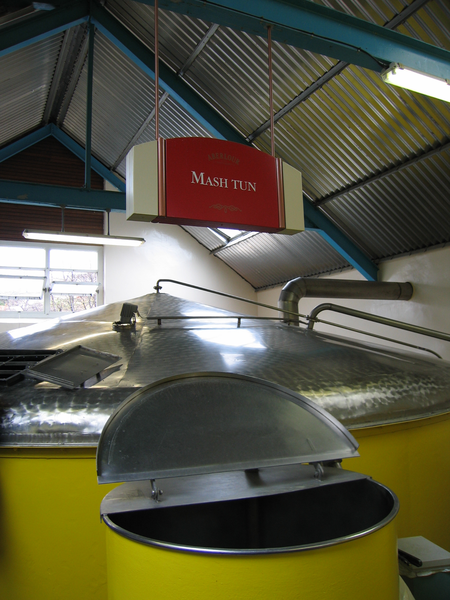 Mash Tun of Aberlour Distillery in Scotland